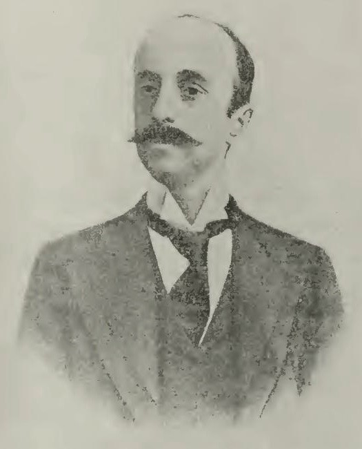 Samipashazade Sezai Bey (1860-1936) Ottoman Turkish author and novelist